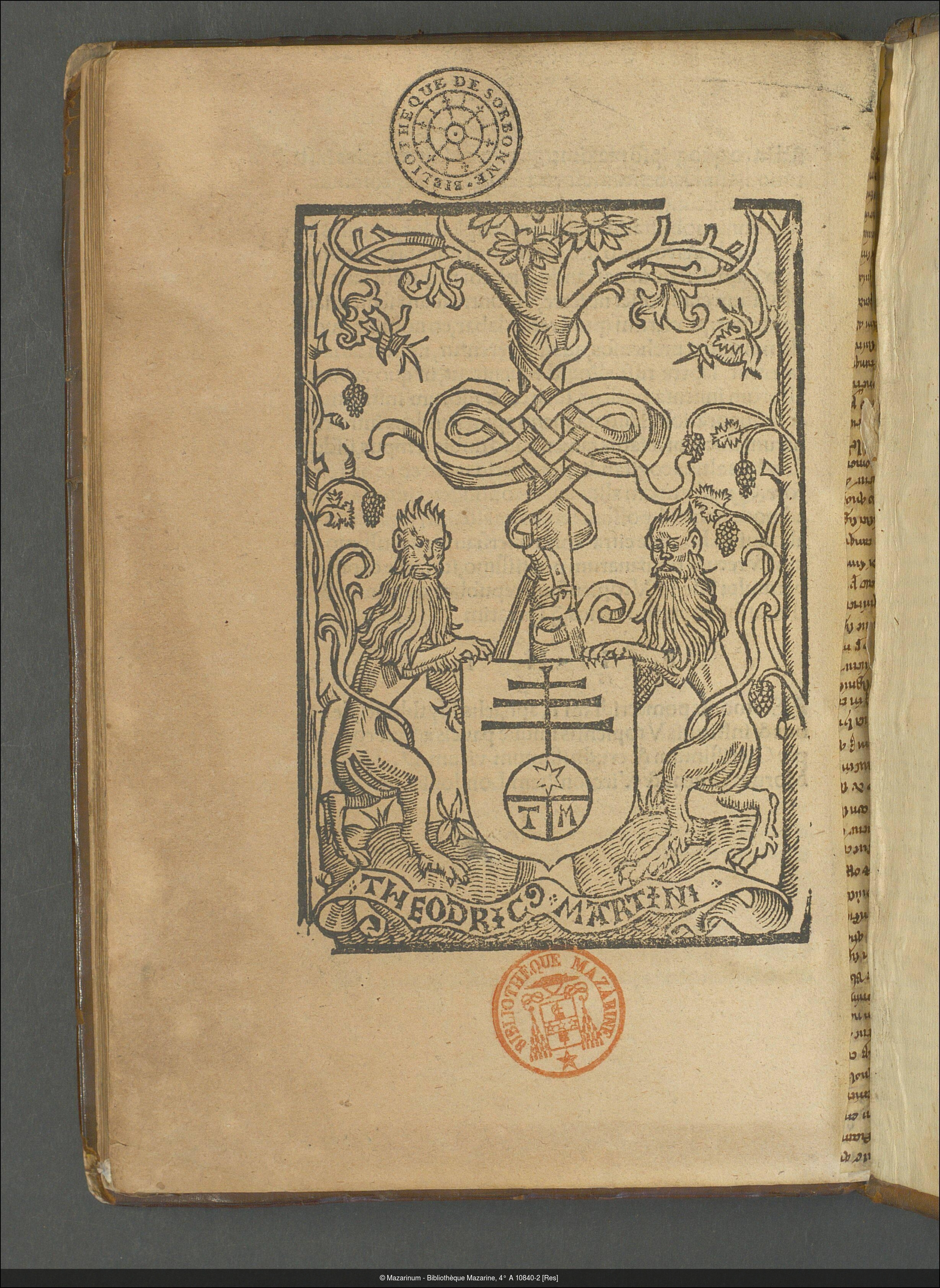 This is Theodorico Martini's printer mark as it appears in Thomas More's Utopia (1516, first edition)